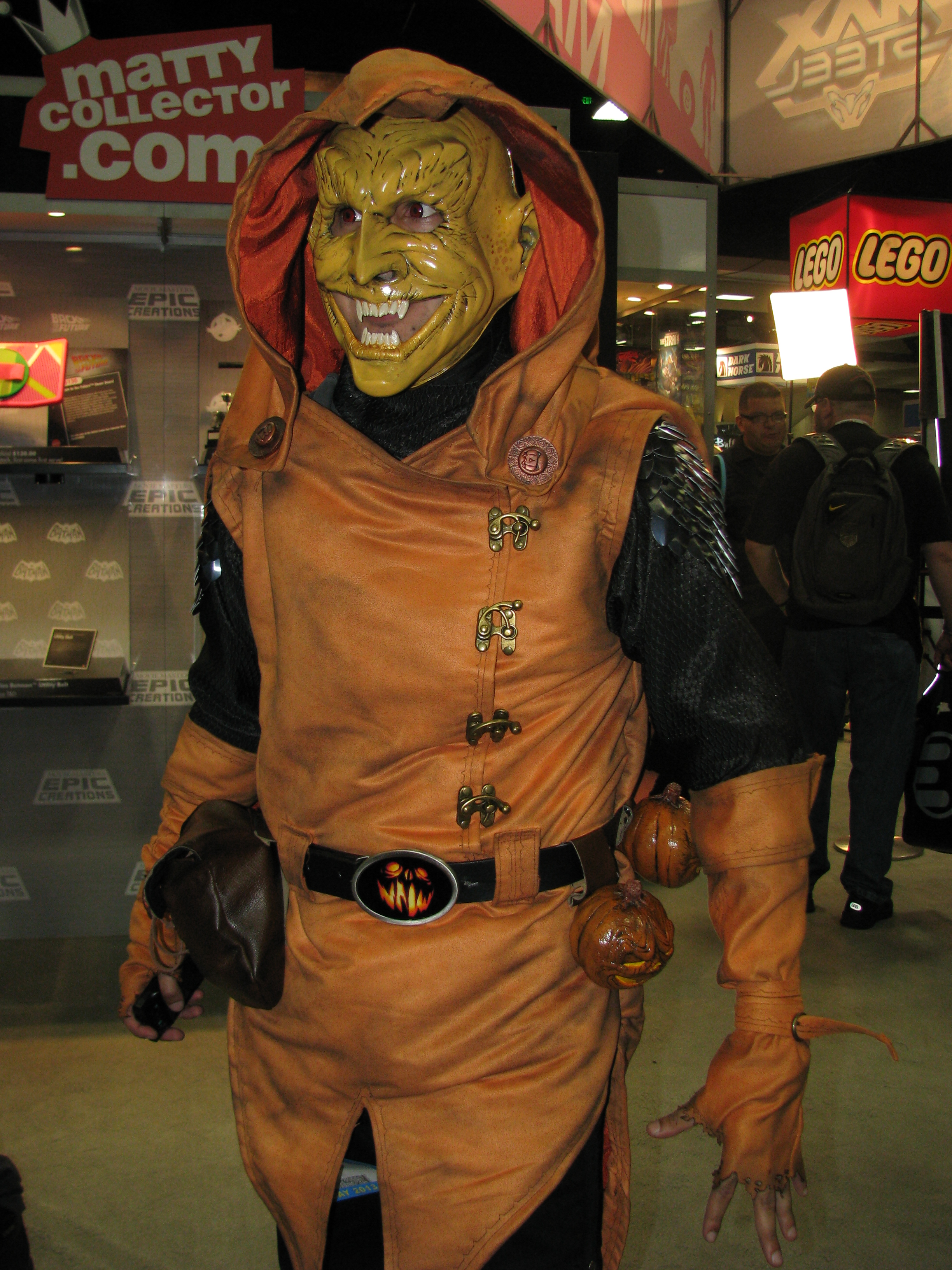 A cosplay of the Spider-Man villain, Hobgoblin